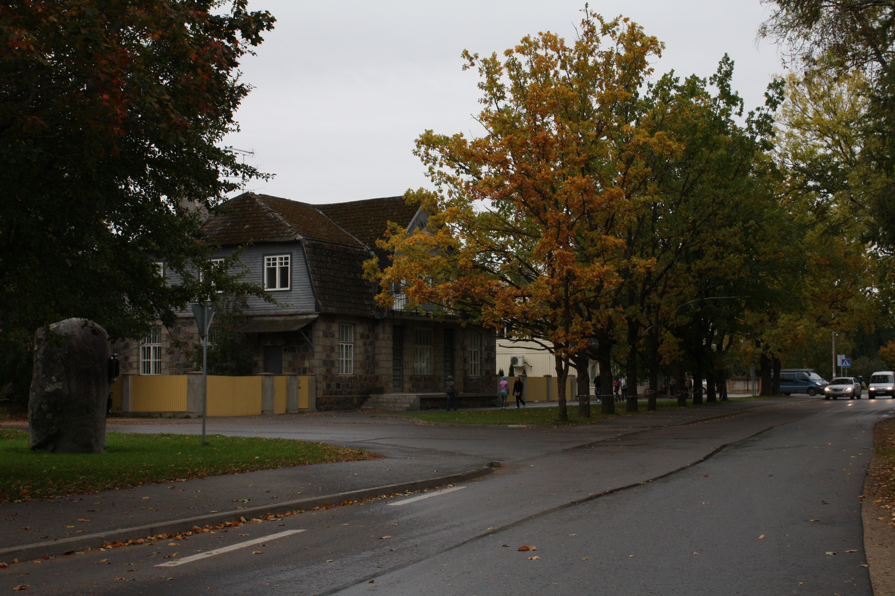 Vaida township